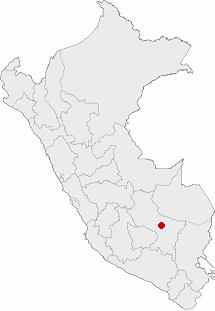 Location of the city of Cusco in Peru Created by Tuomas Carrasco - Feb. 2005